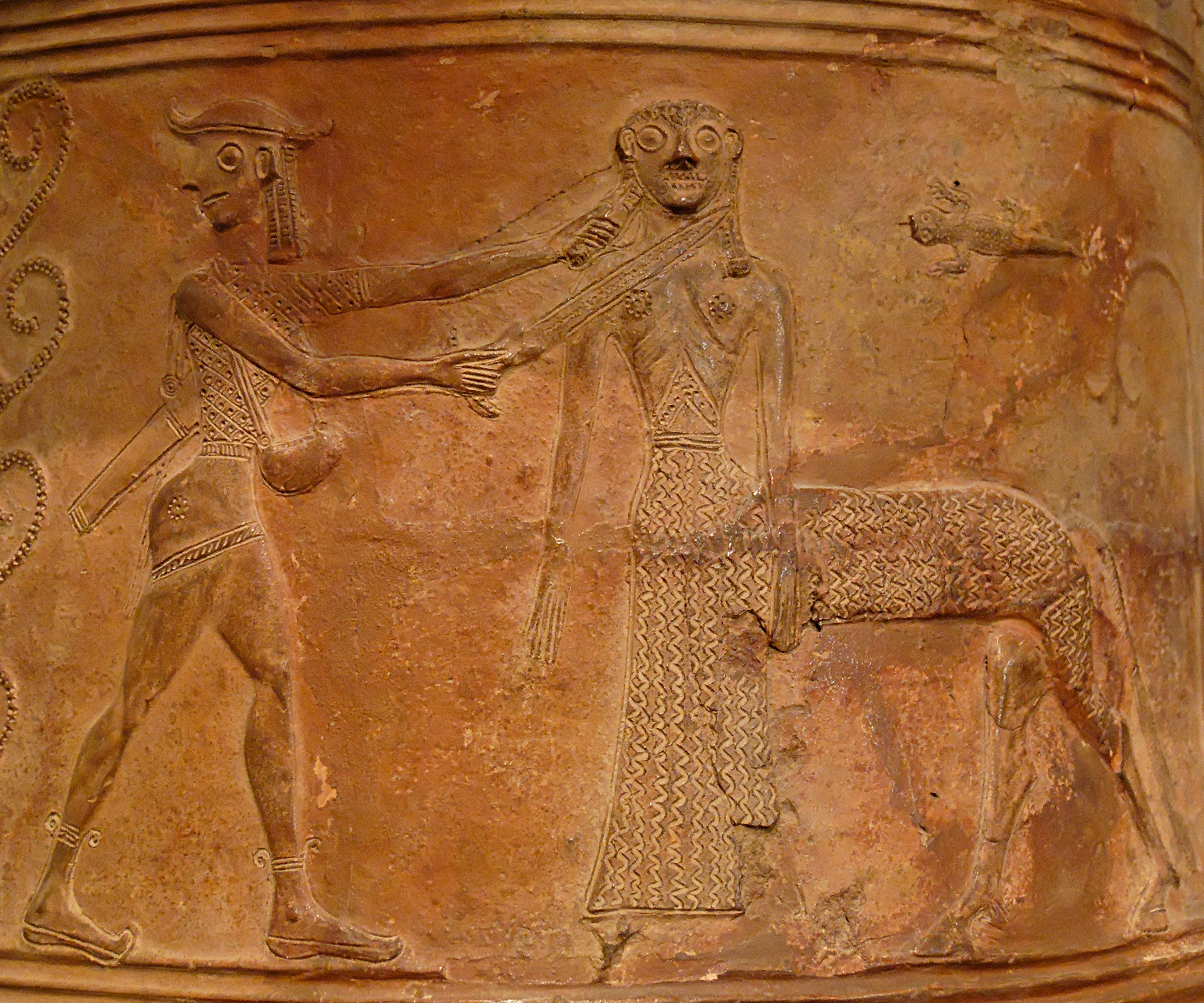 Perseus (left, wearing a hat, winged boots and the kibisis slung over his shoulder) averts his gaze as he kills Medusa, figured here as a female centaur. Detail from an orientalizing relief pithos.